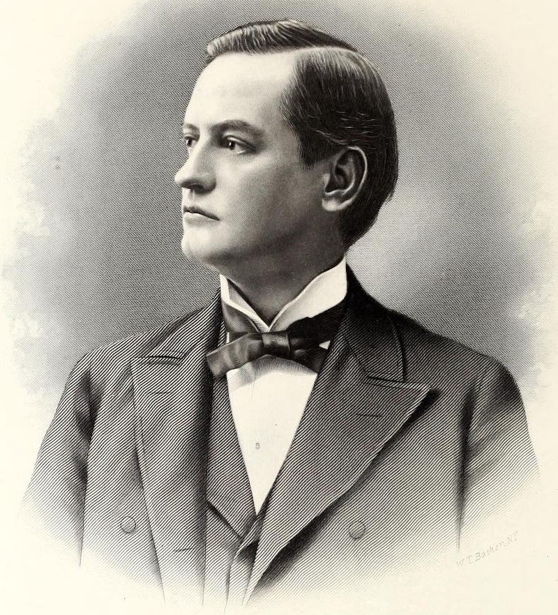 Howard Mutchler, Pennsylvania Congressman